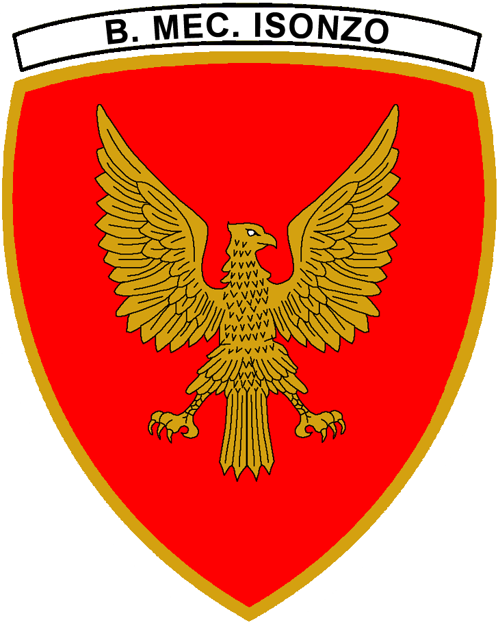 Coat of Arms of the Italian Army Mechanized Brigade Isonzo between 1975 and 1986